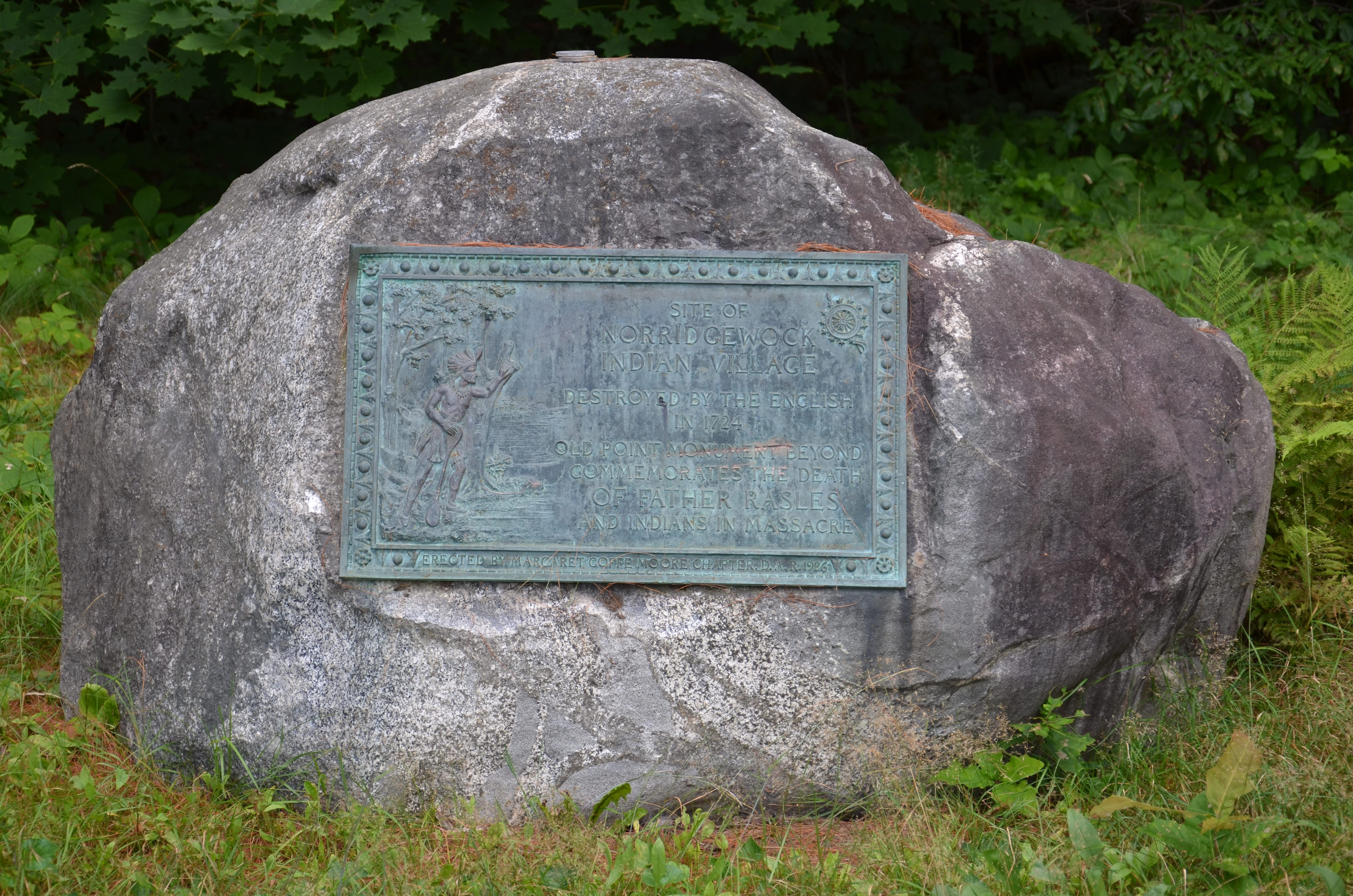 Detail of the memorial plaque marking the site of the Norridgewock Native American village in Madison, Maine. The text reads: "Site of Norridgewock Indian Village Destroyed by the English in 1724 Old Point monument beyond commemorates the death of Father Rasle and Indians in massacre Erected by Margaret Goffe Moore Chapter D.A.R. 1926"